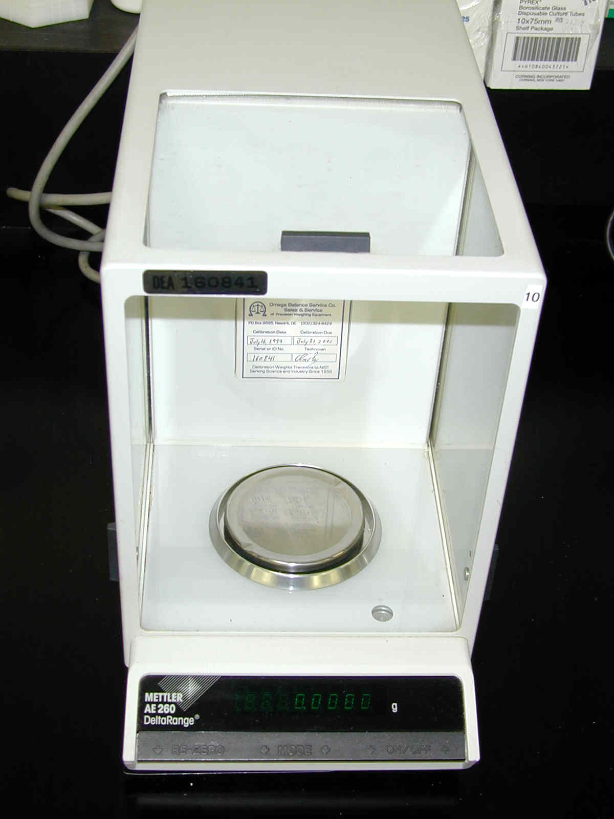 Analytical balance Mettler ae-260